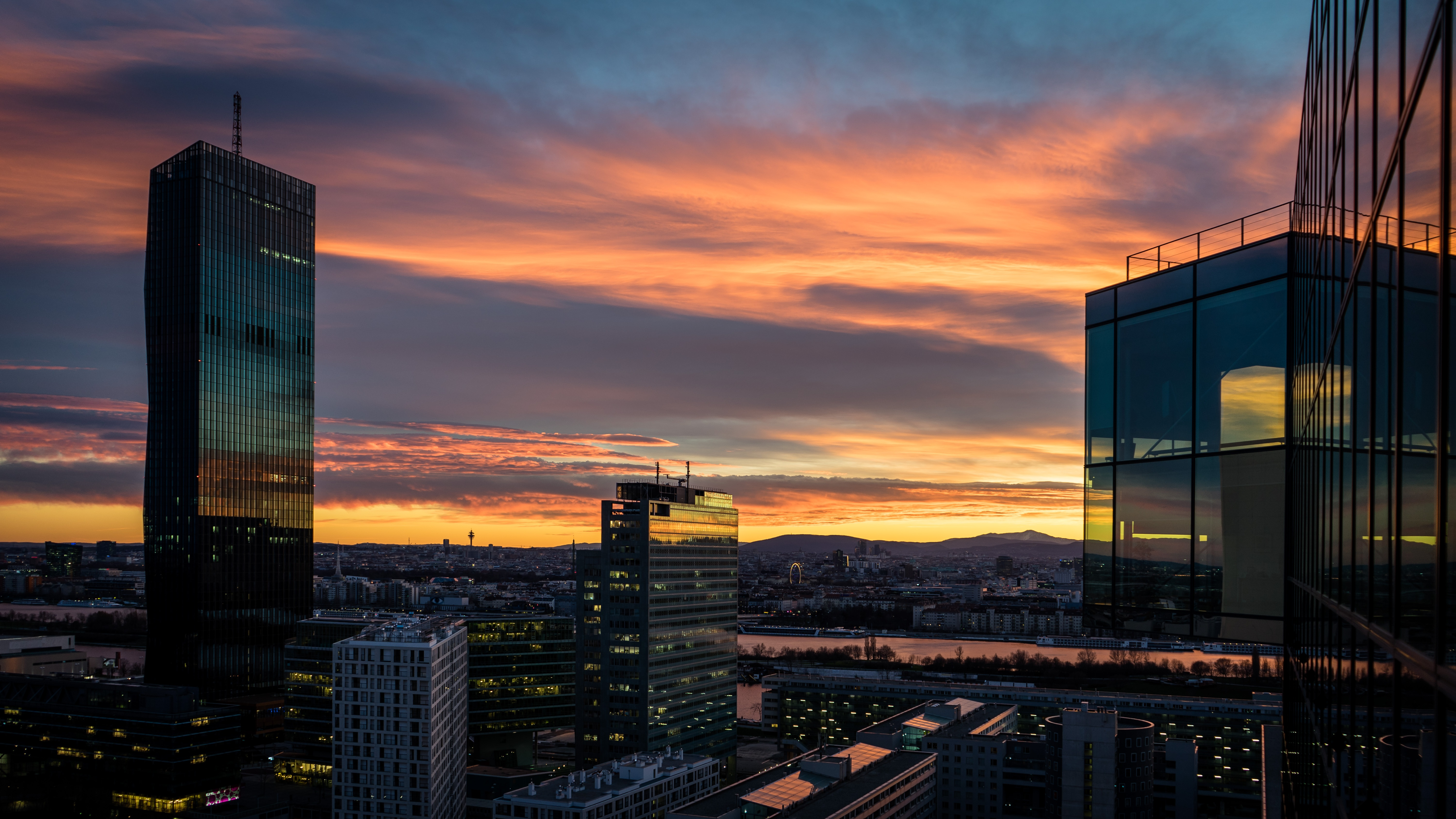 Austria Center Vienna (IAKW-AG), Wien, Austria